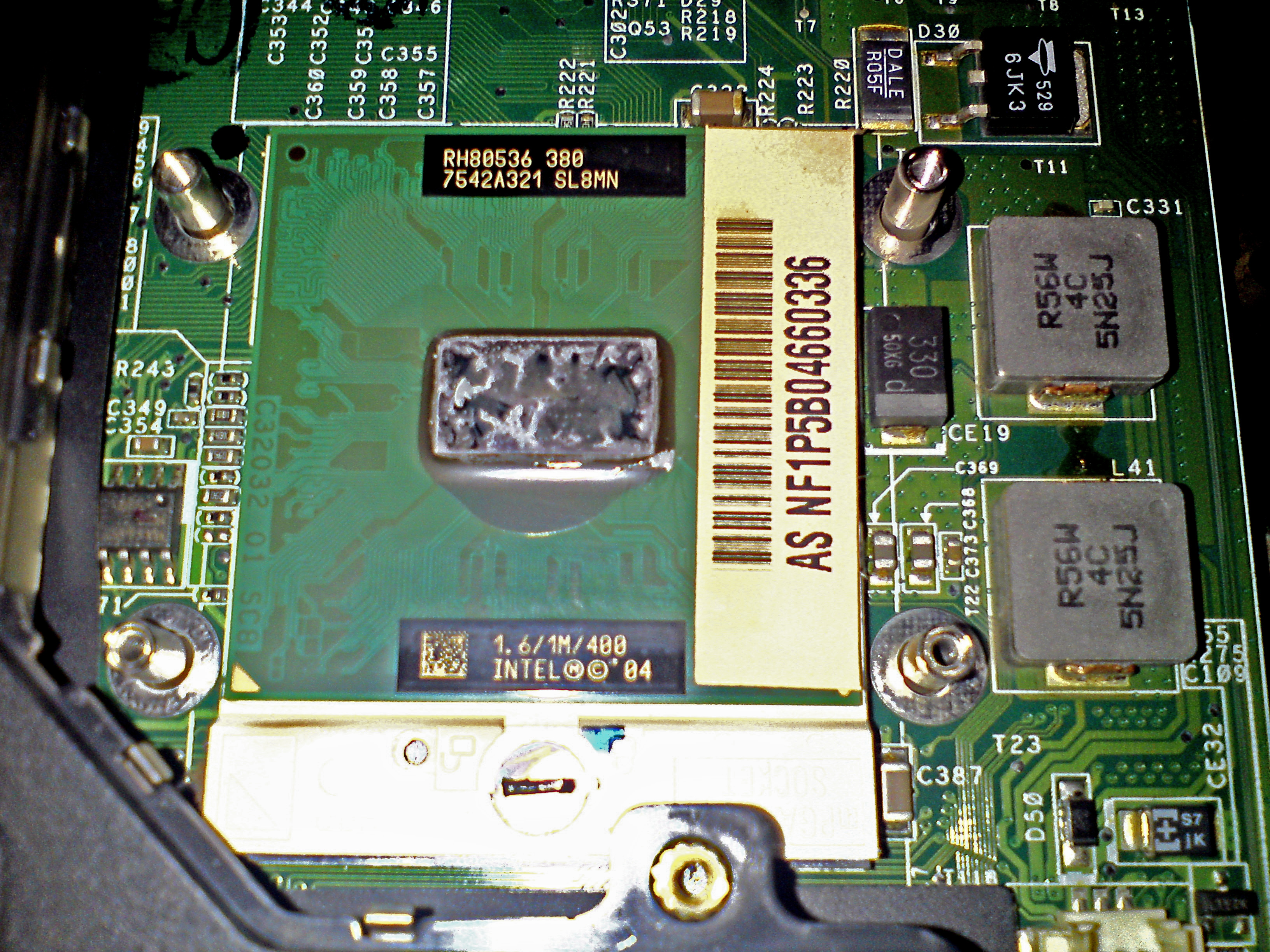 Intel Celeron-M at Socket479